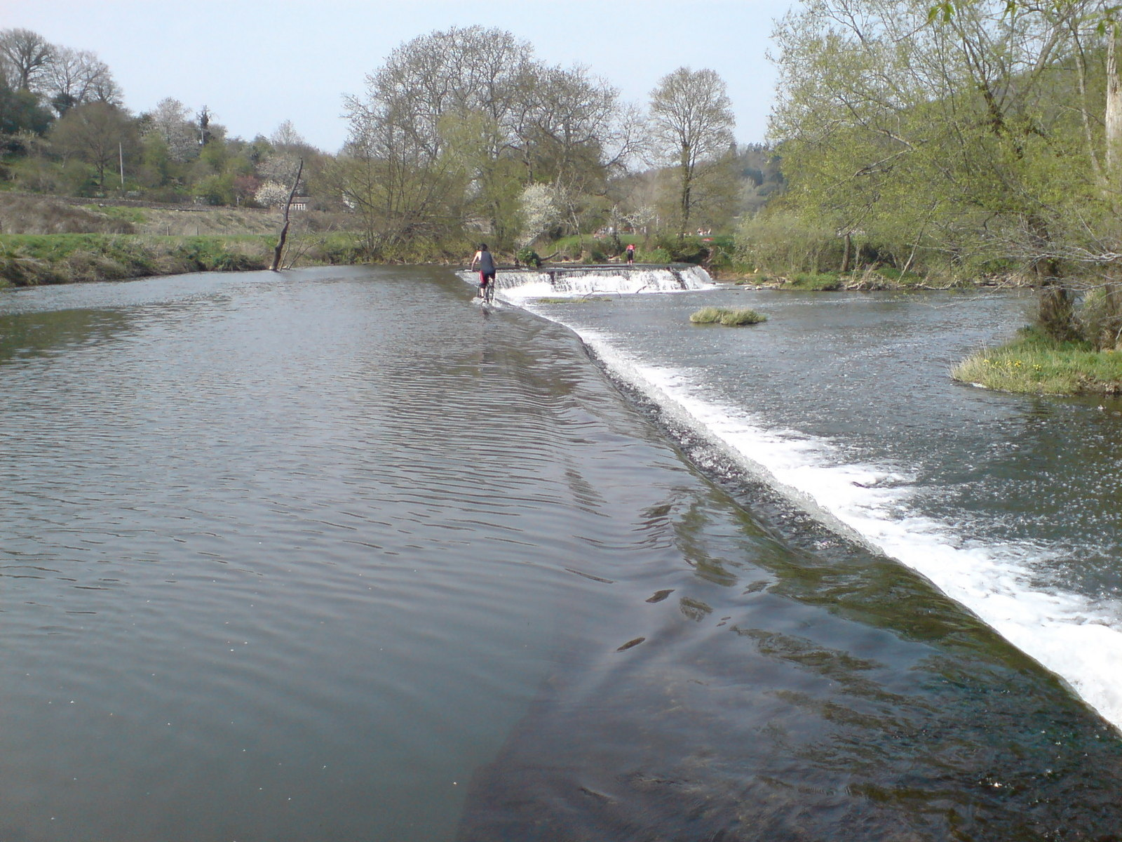 Claverton Weir. A popular spot in the summer. If you look closely you can see a mad bloke riding his bike along the weir sill - so it can't be that dangerous!